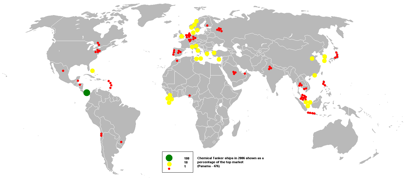 This bubble map shows the global distribution of chemical tanker ships in 2006 as a percentage of the top market (Panama - 476). This map is consistent with incomplete set of data too as long as the top producer is known. It resolves the accessibility issues faced by colour-coded maps that may not be properly rendered in old computer screens. Data was extracted on 30th September 2007 from Based on Image:BlankMap-World.png